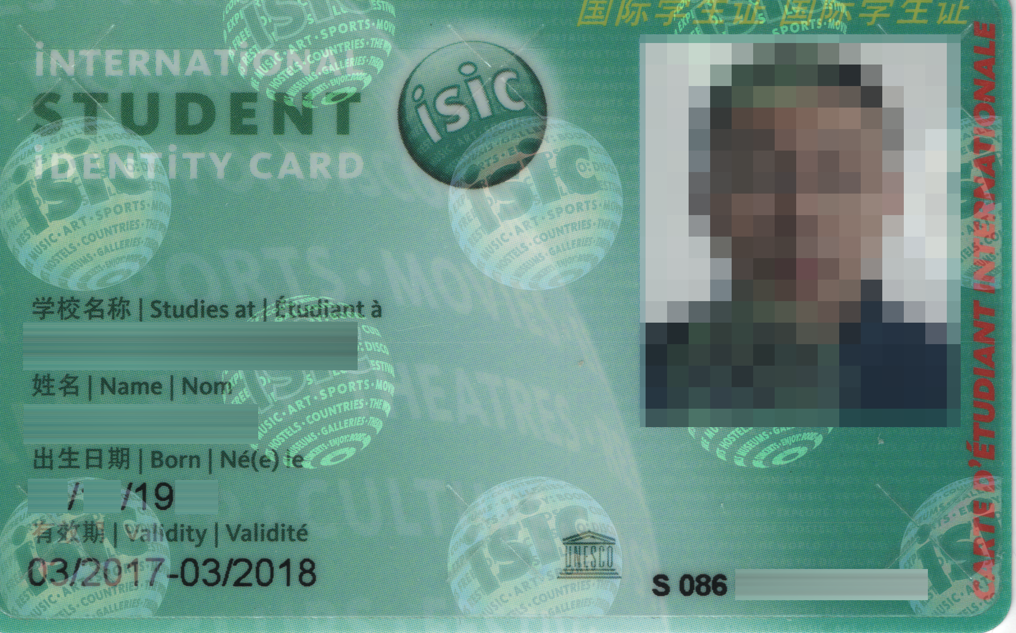 ISIC issued in China